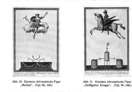 Copper engravings of aerostatic figures by Johann Carl Enslen, shown in 1795, scan from: Louis Liebmann, Gustav Wahl: Katalog der historischen Abteilung der ersten Internationalen Luftschiffahrts-ausstellung (ILA) zu Frankfurt a.M. 1909. Frankfurt a.M.: Wüsten & Co., 1912, p. 58, # 165 & 166